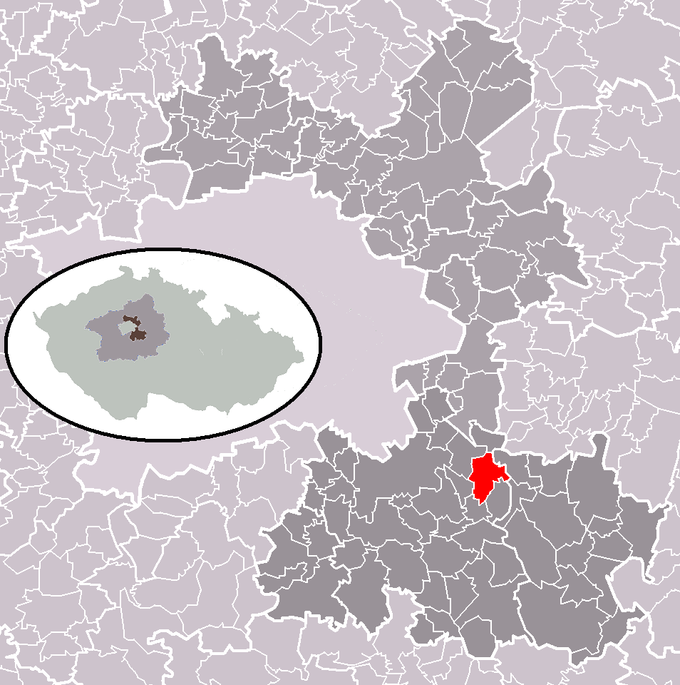 Location of Mukařov municipality within Prague-East District and administrative area of Říčany as a Municipality with Extended Competence.